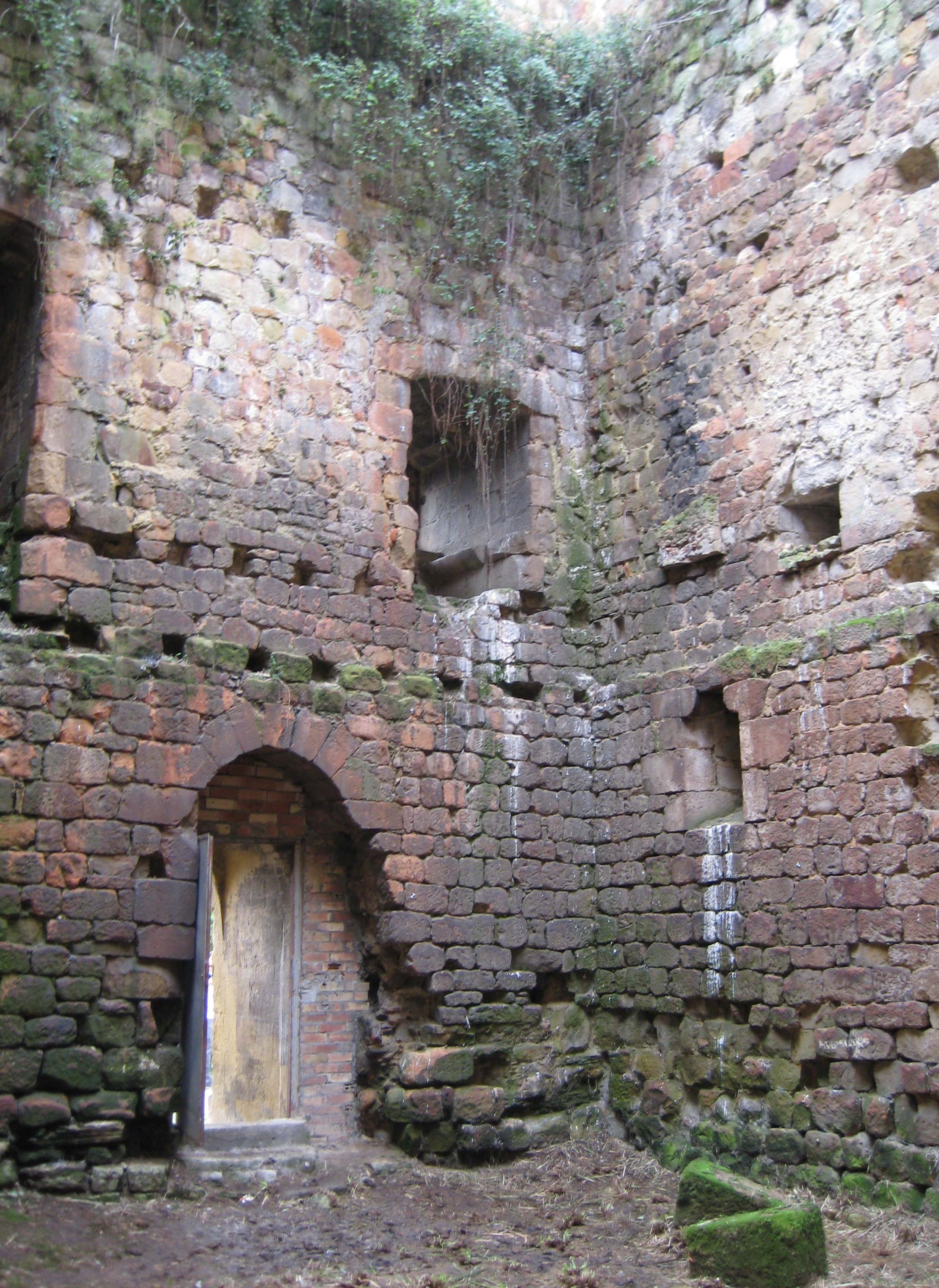 Martiartu tower from the inside, Erandio, Biscay